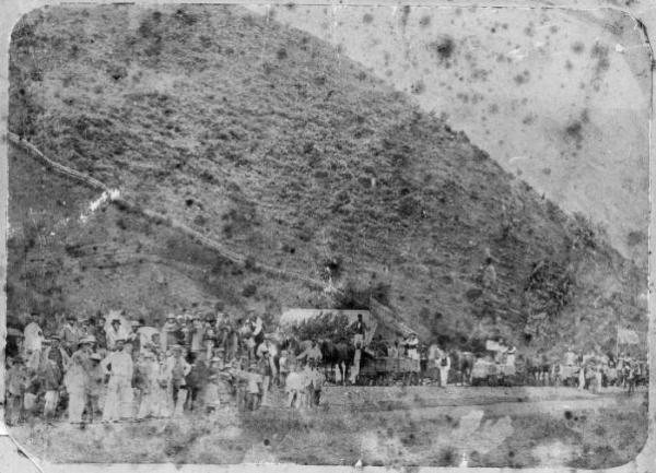 Opening of Dun Mountain tramway, Nelson region, 3 Feb 1862, Alexander Turnbull Library, 1/2-018188-F